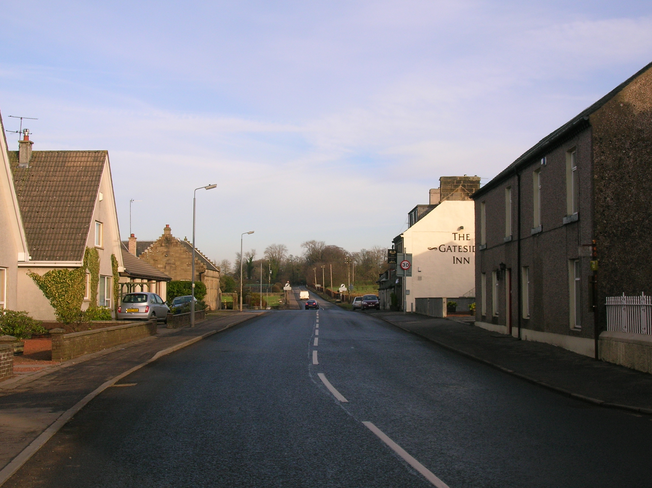 The main street of Gateside, North Ayrshire, Scotland.